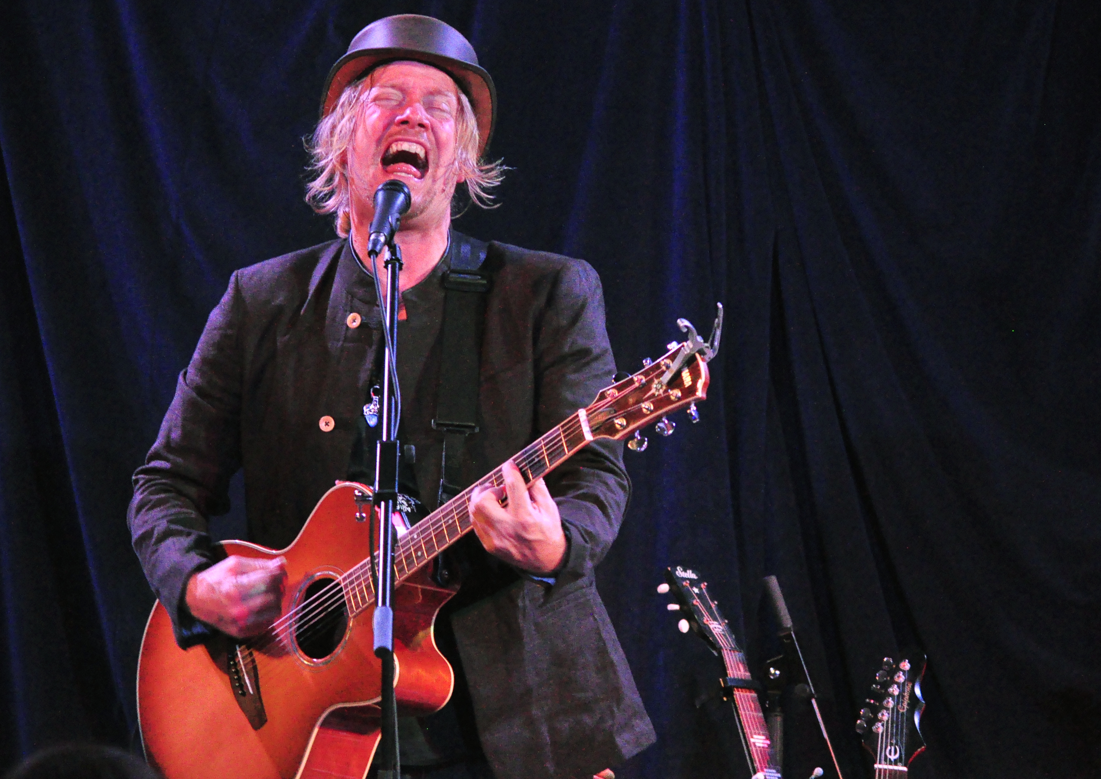 Jim Camacho performing at the Fremont Abbey, Seattle, Washington, U.S., March 22, 2014.